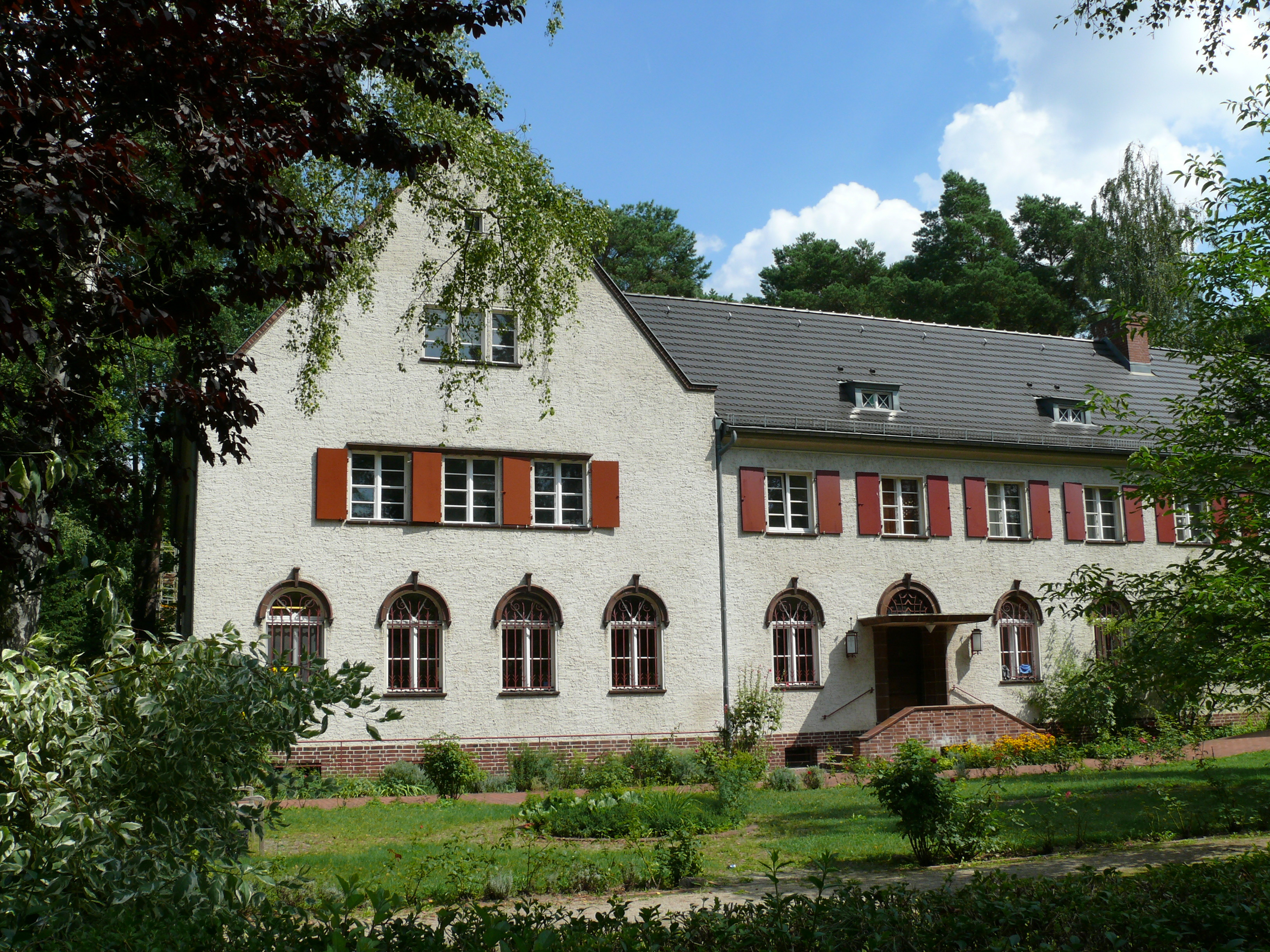 Berlin-Nikolassee Kirchweg 6 Evangelisches Gemeindehaus